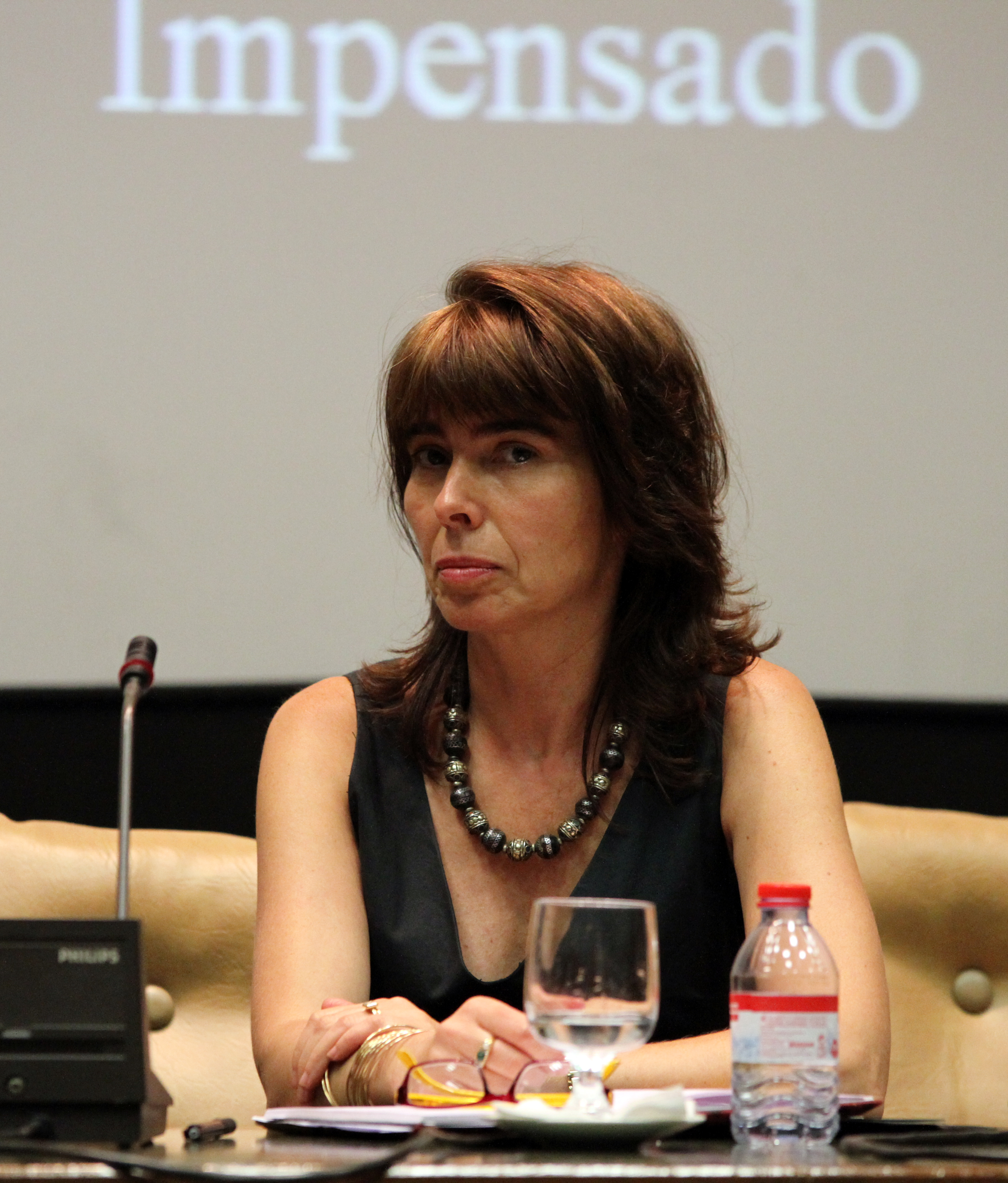 Margarida Calafate Ribeiro